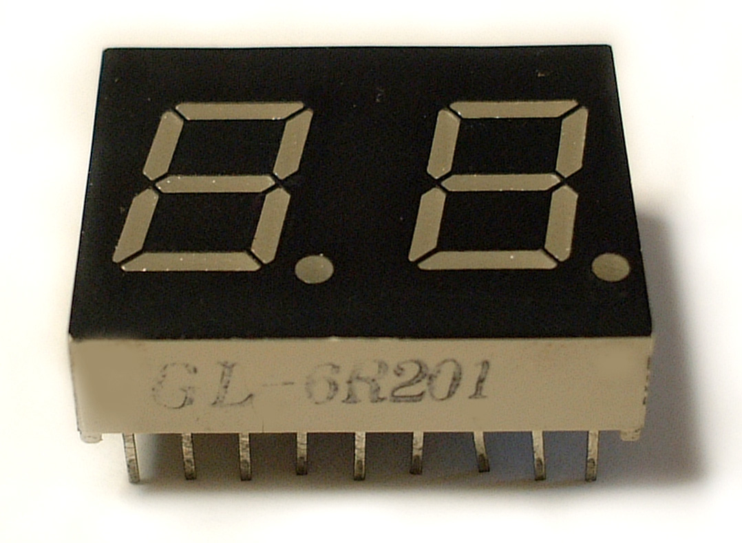 7 Segment Display.